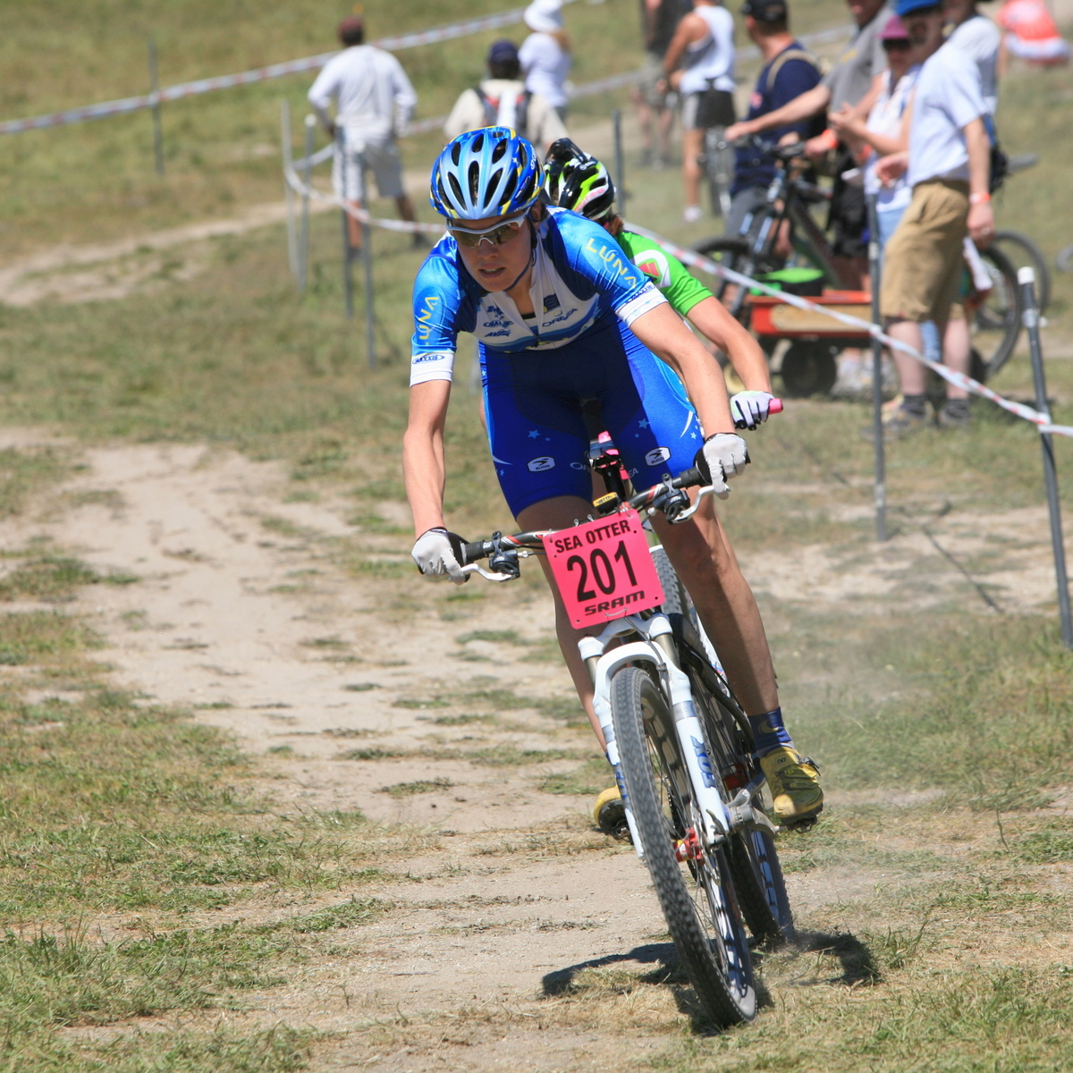 Georgia Gould racing in the Elite Women's Short Track race at the 2009 Sea Otter Classic in Laguna Seca, CA